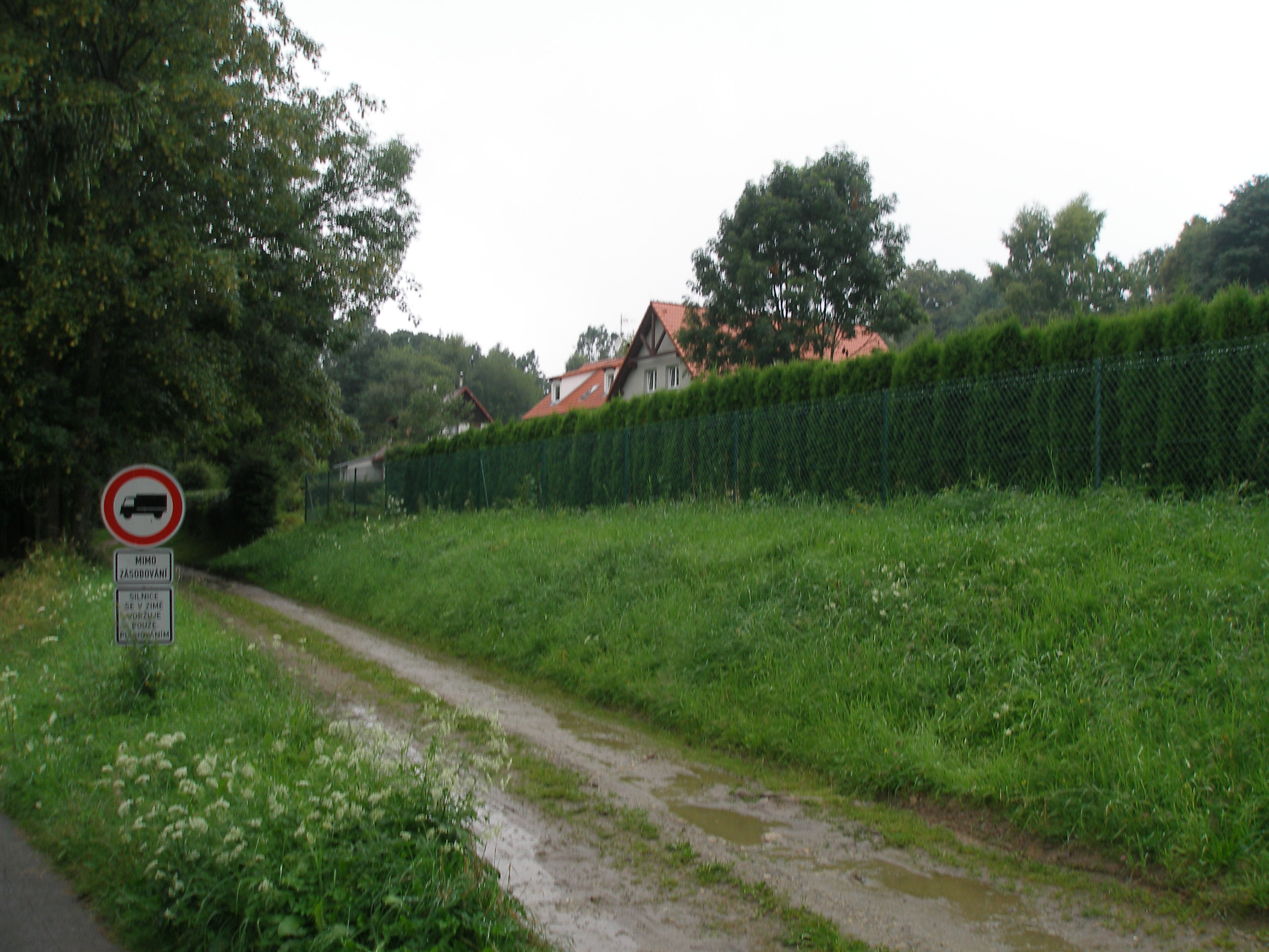 Zahrádka - the cottage settlement built on the place of the former village, defunct after the World War II